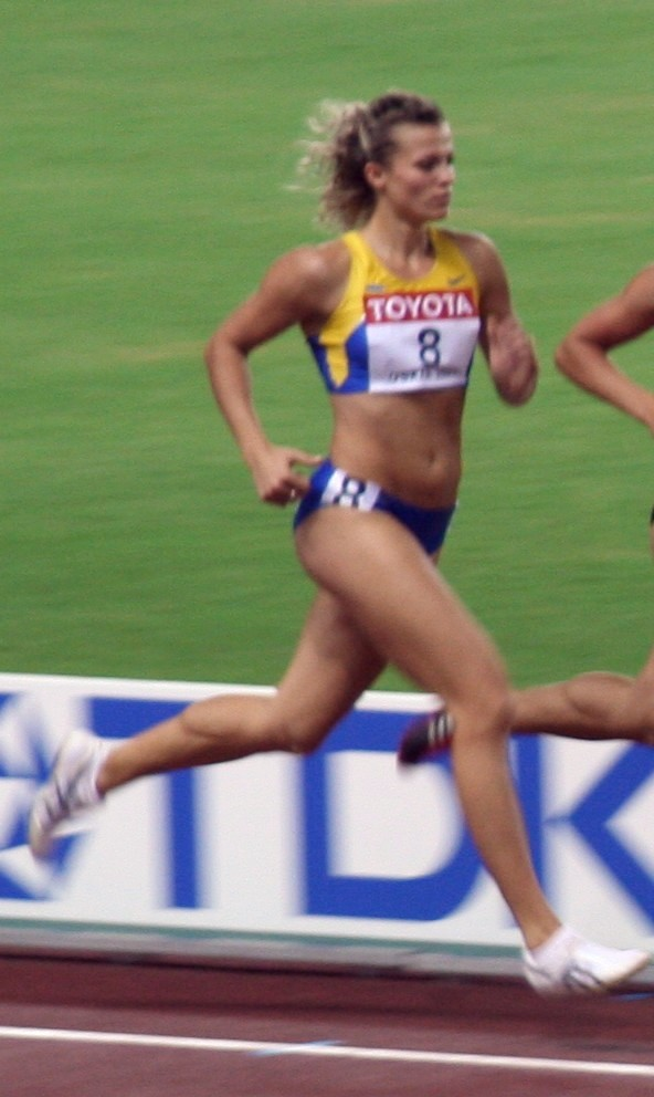 World Athletics Championships 2007 in Osaka - Nataliya Dobrynska in the concluding 800 metres race of the women's heptathlon